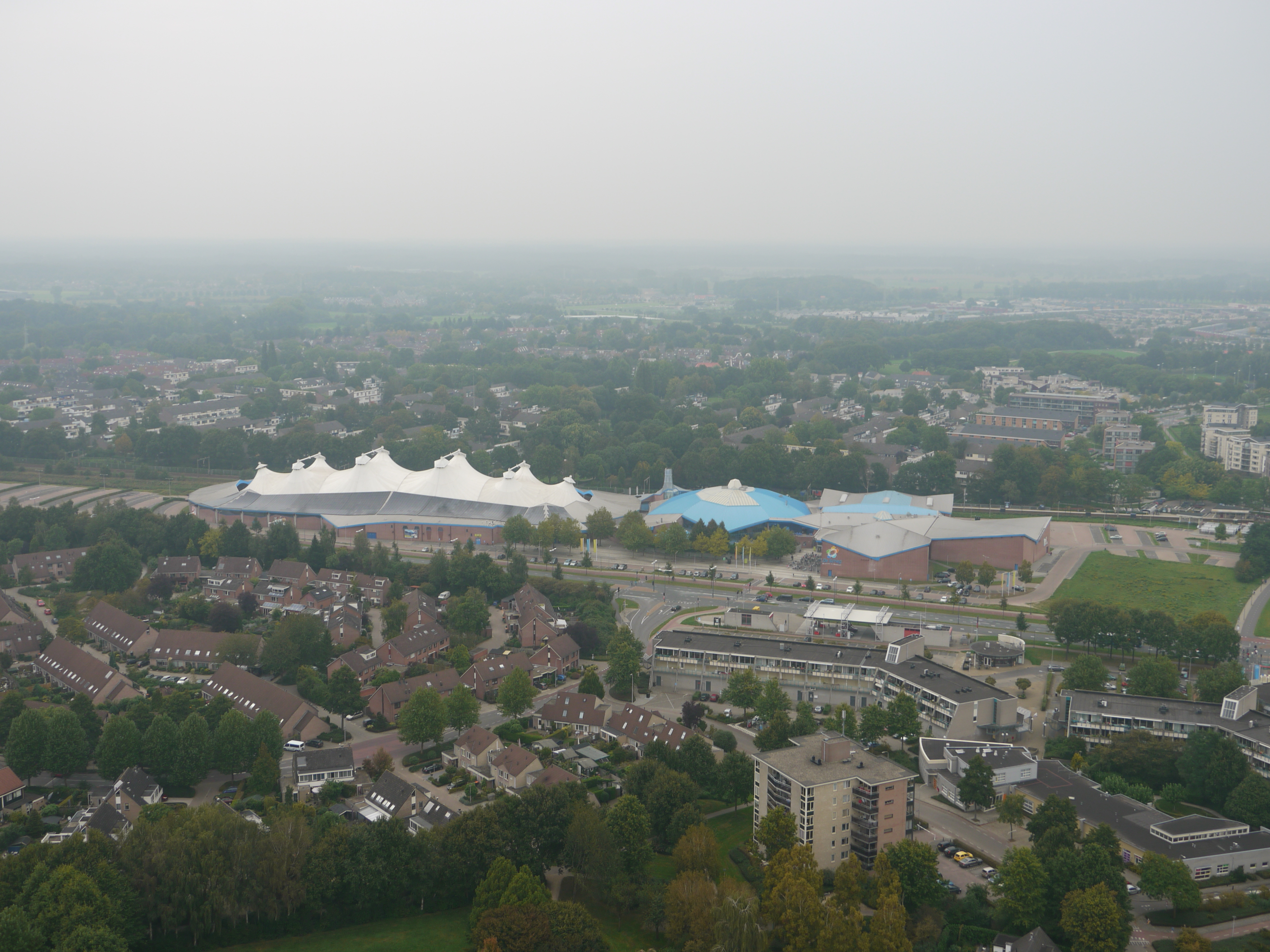 Sport complex / ice skating dome De Scheg in Deventer, the Netherlands